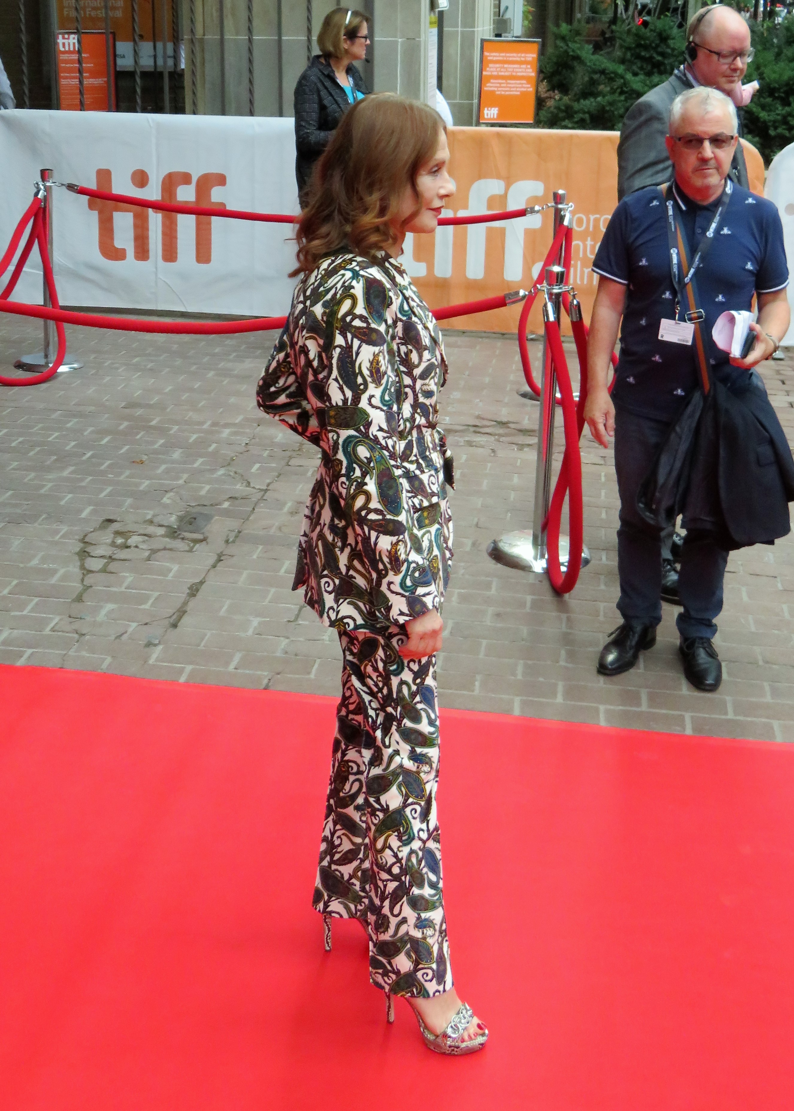 Isabelle Huppert at the premiere of Greta, 2018 Toronto Film Festival.